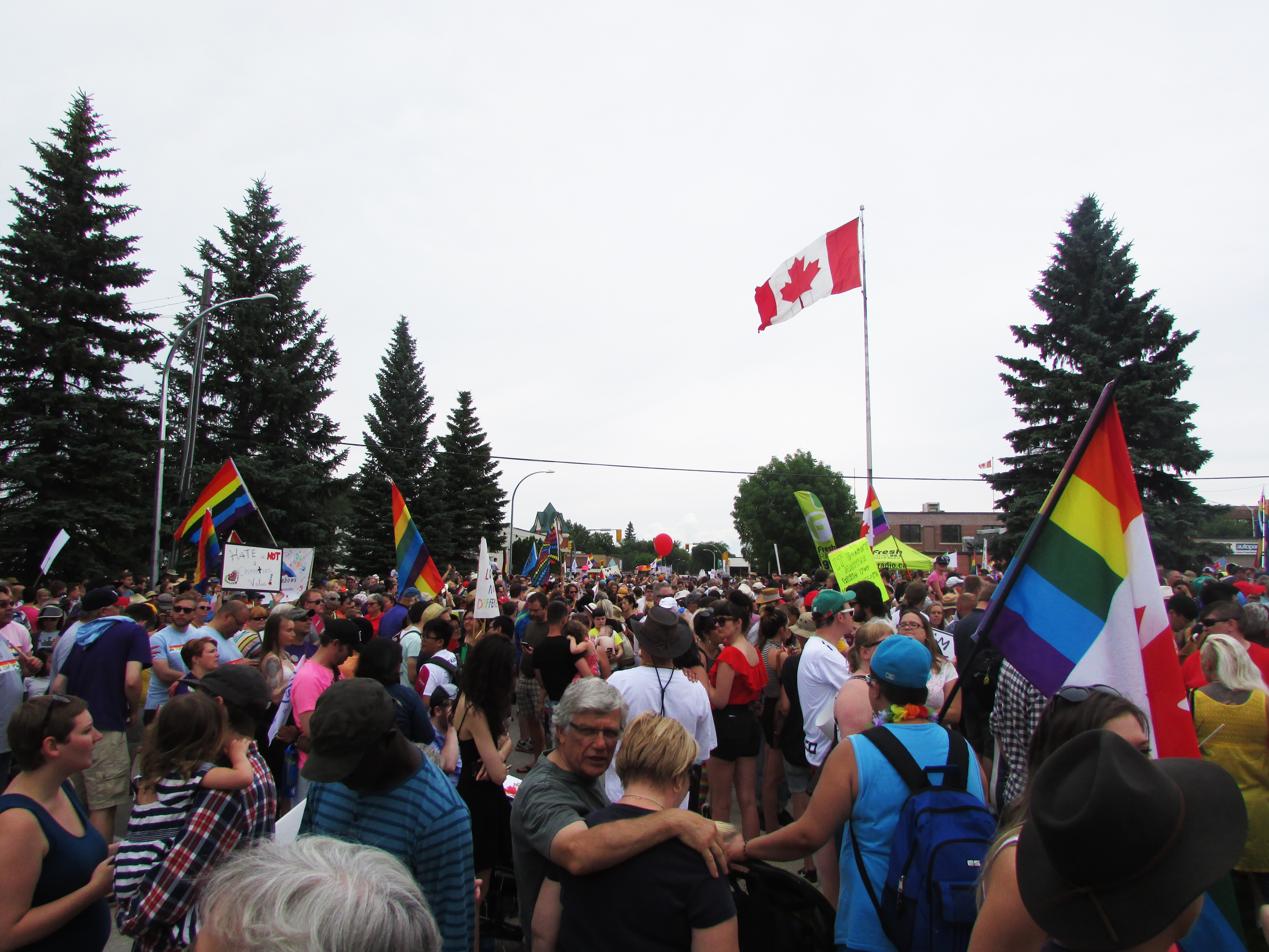 The people gathered at Steinbach City Hall for the city's first ever Pride parade.